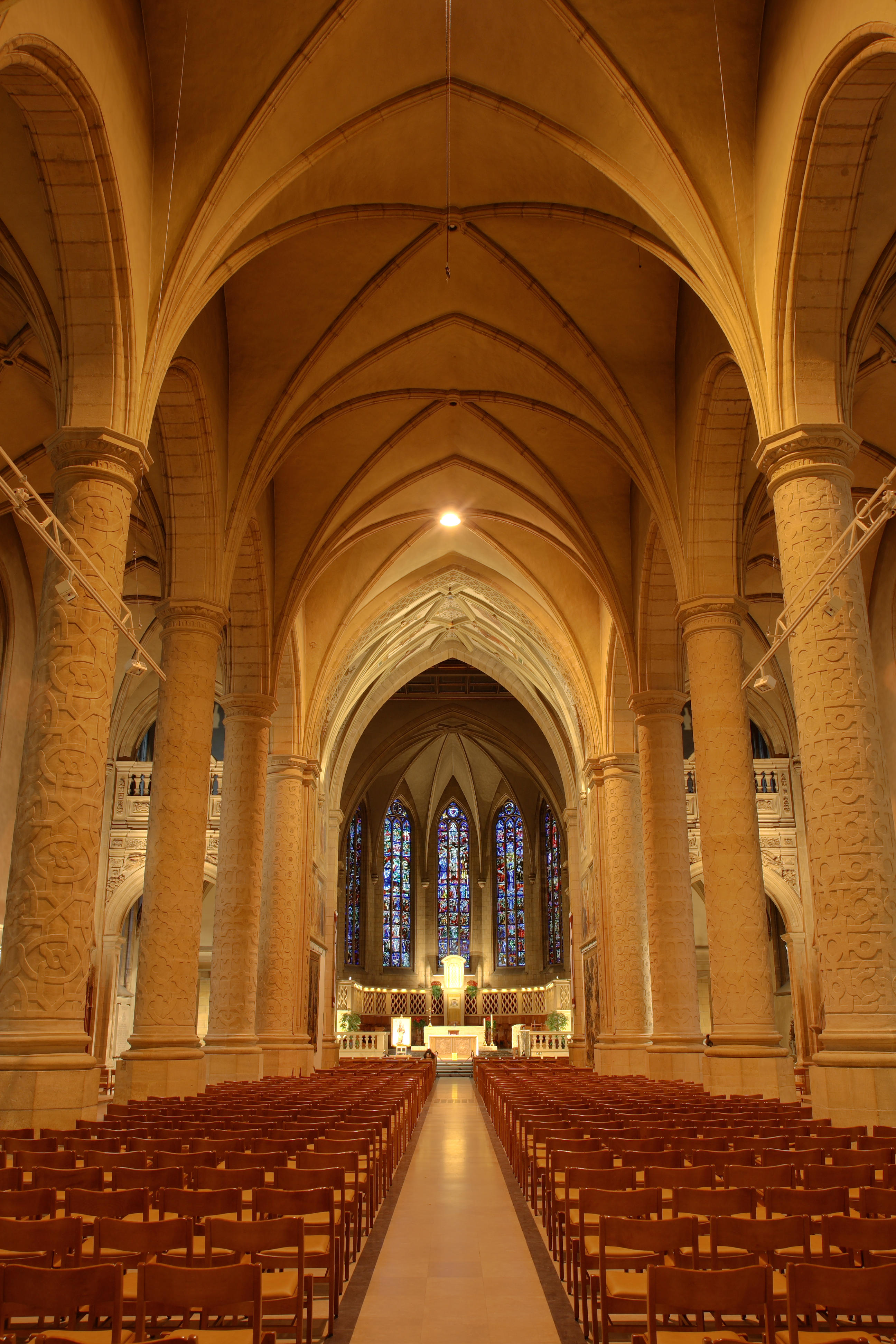 Nave of the Notre-Dame Cathedral in Luxembourg. This picture is a tone mapped version made from 3 pictures taken from the same point at different exposures.